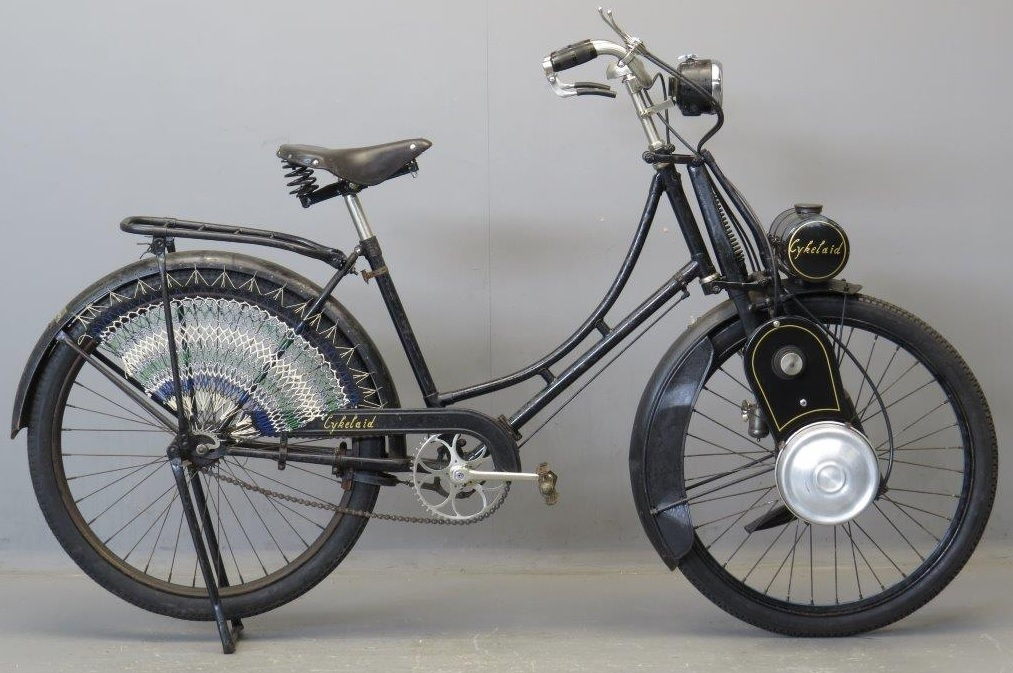 New Cykelaid ca. 1924 1 ½ HP 131 cc two stroke auxiliary motor unit frame # 113937 B engine # 12